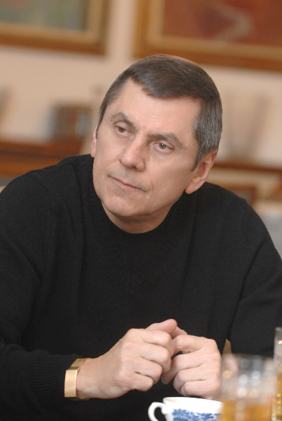 Ilya Velchev